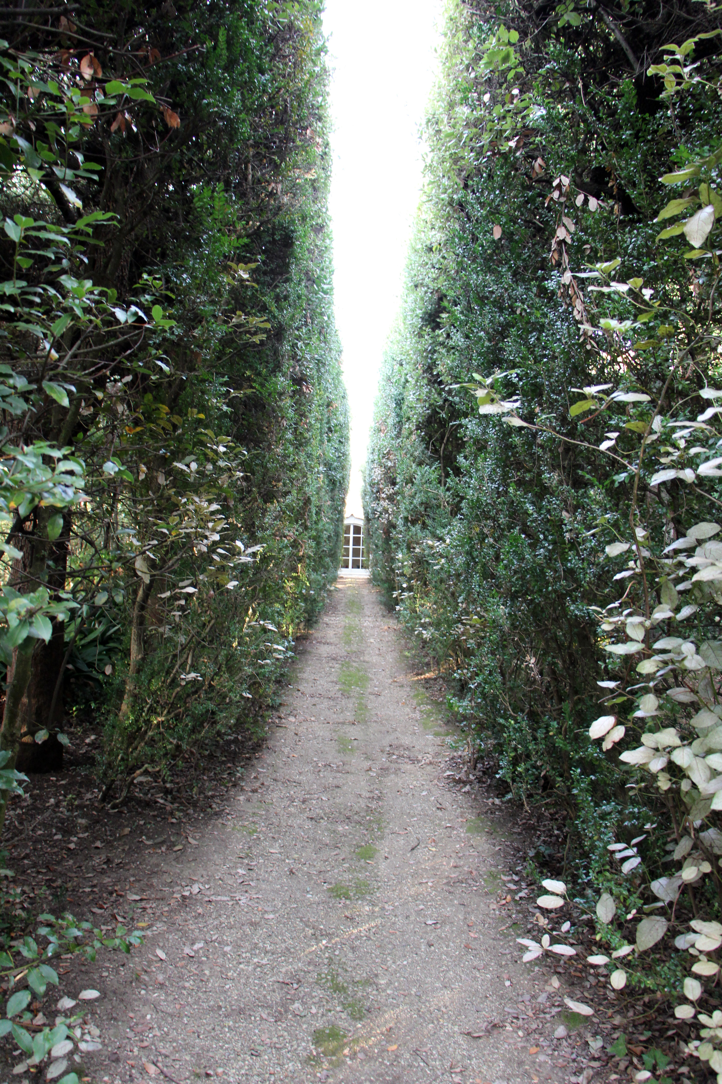 Gardens of Villa La Quiete (Florence)